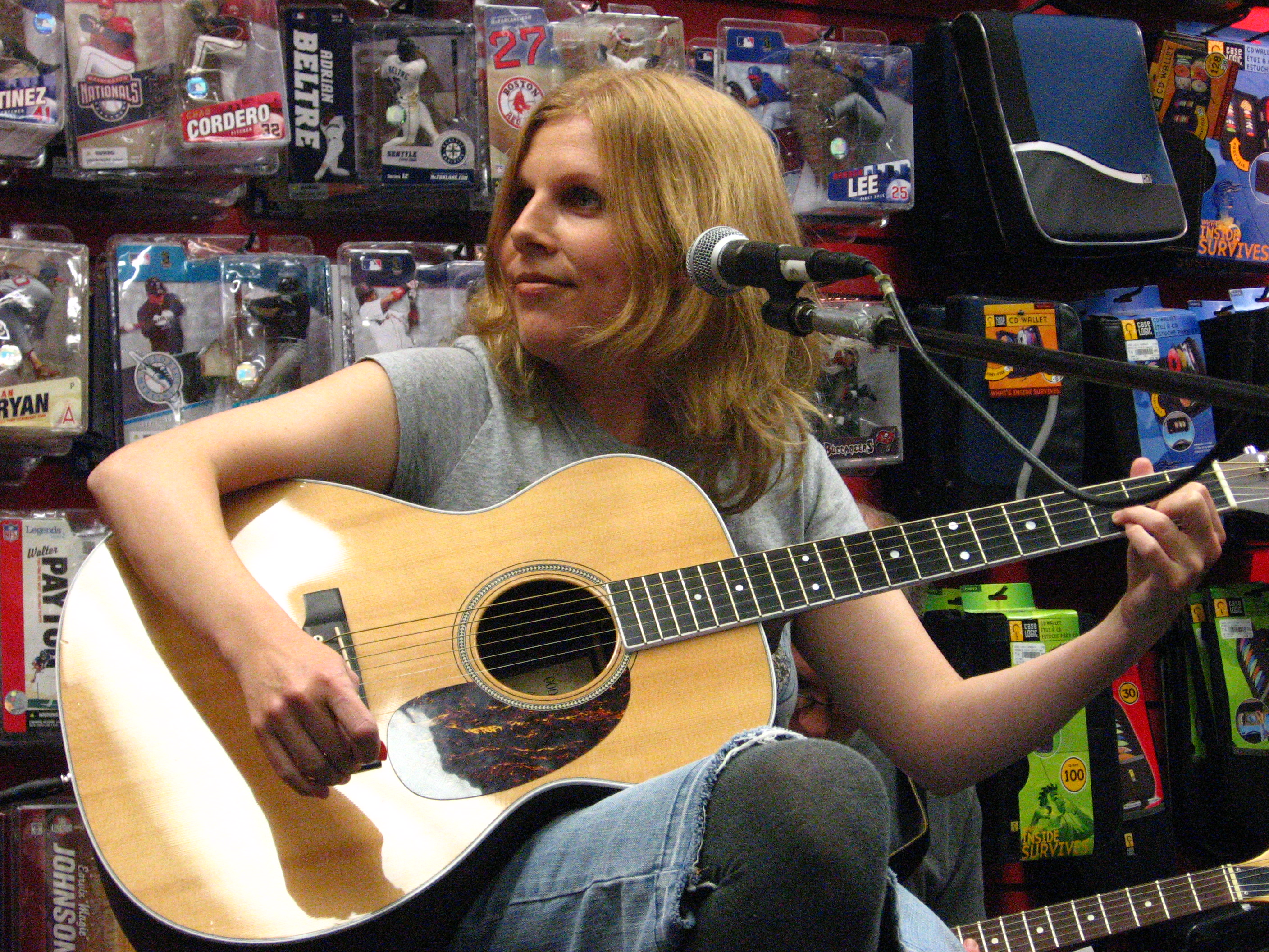 Photo of singer Tanya Donelly performing.